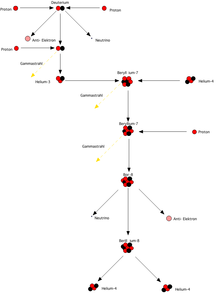 The Proton-Proton III chain reaction.